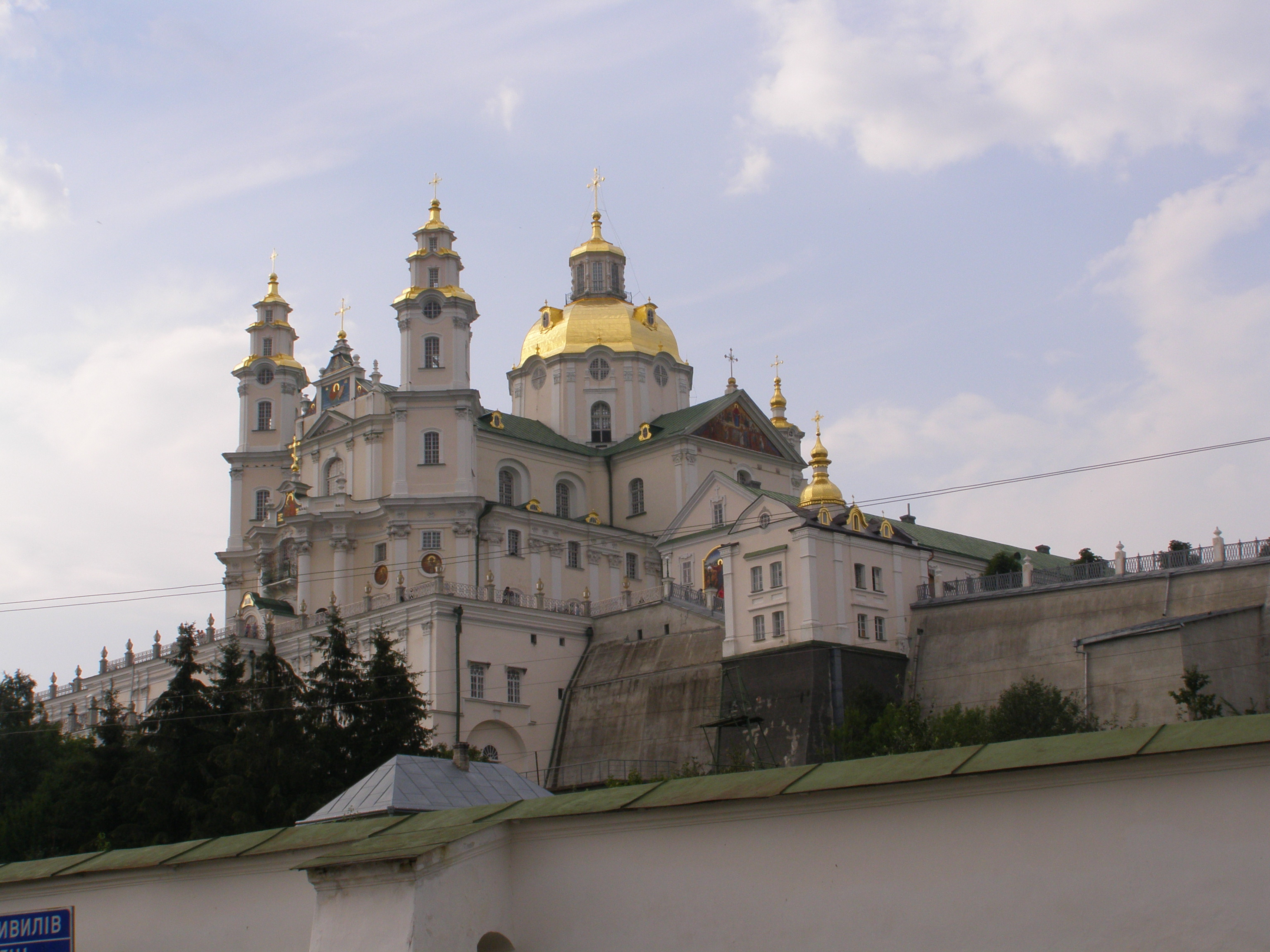 Pochayiv Lavra